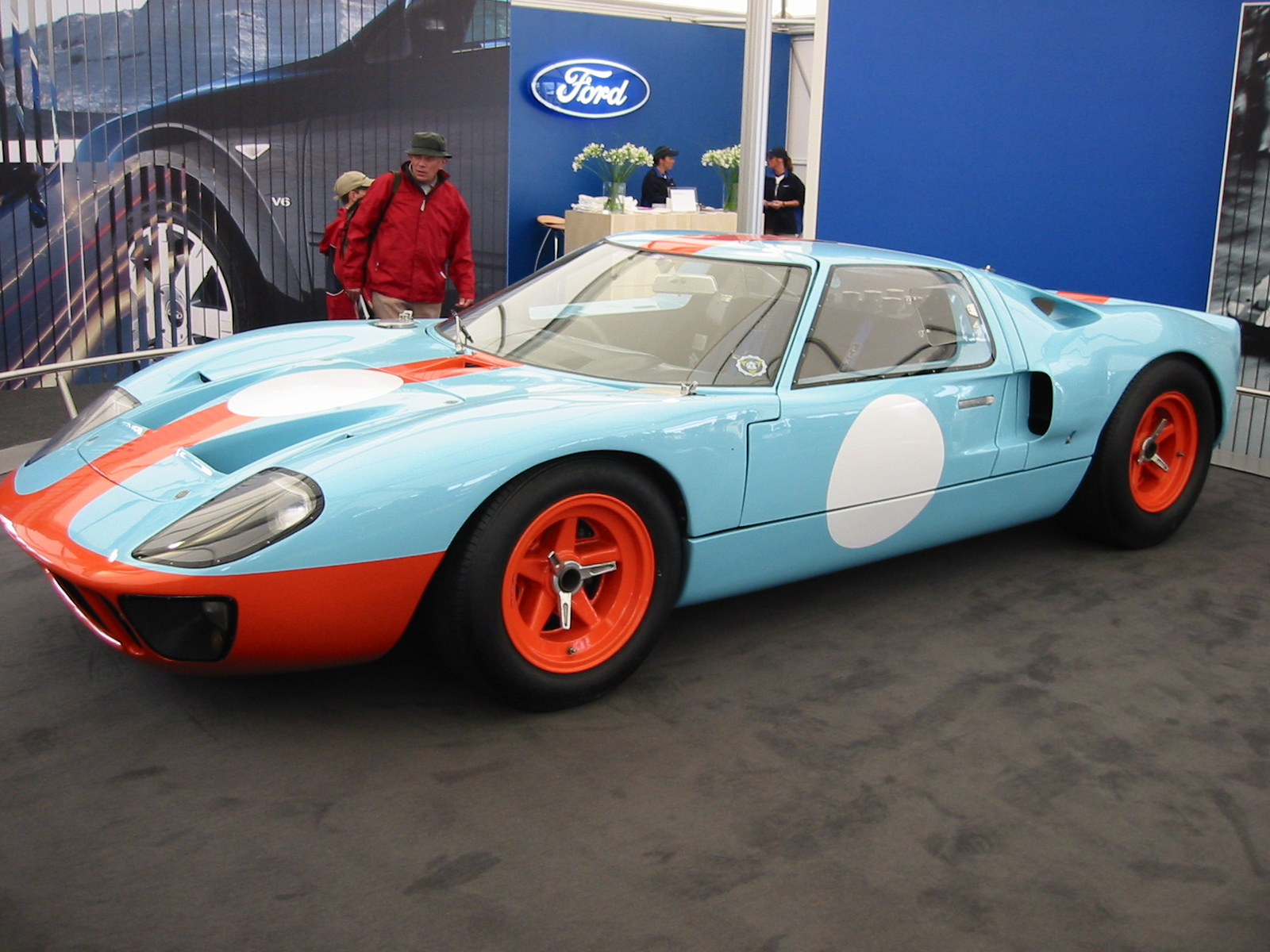 Ford GT40 at the Goodwood Festival of Speed, with Gulf Oil racing colours.